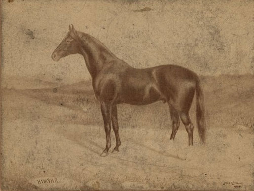 Himyar, runner up in the 1878 Kentucky Derby